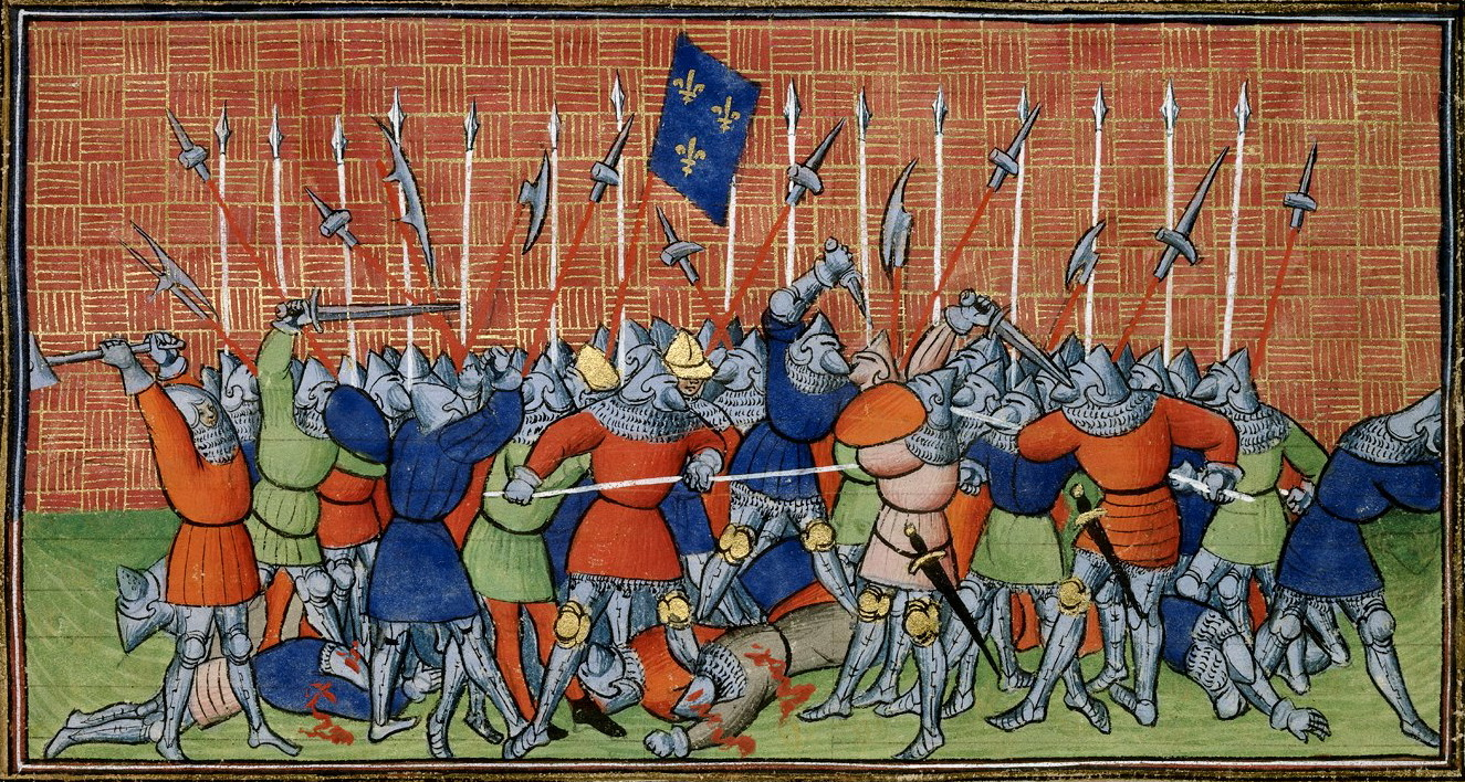 The Battle of Courtrai / Battle of the Golden Spurs, 1302. From the Chroniques de France ou de St Denis, BL Royal MS 20 C vii f. 34